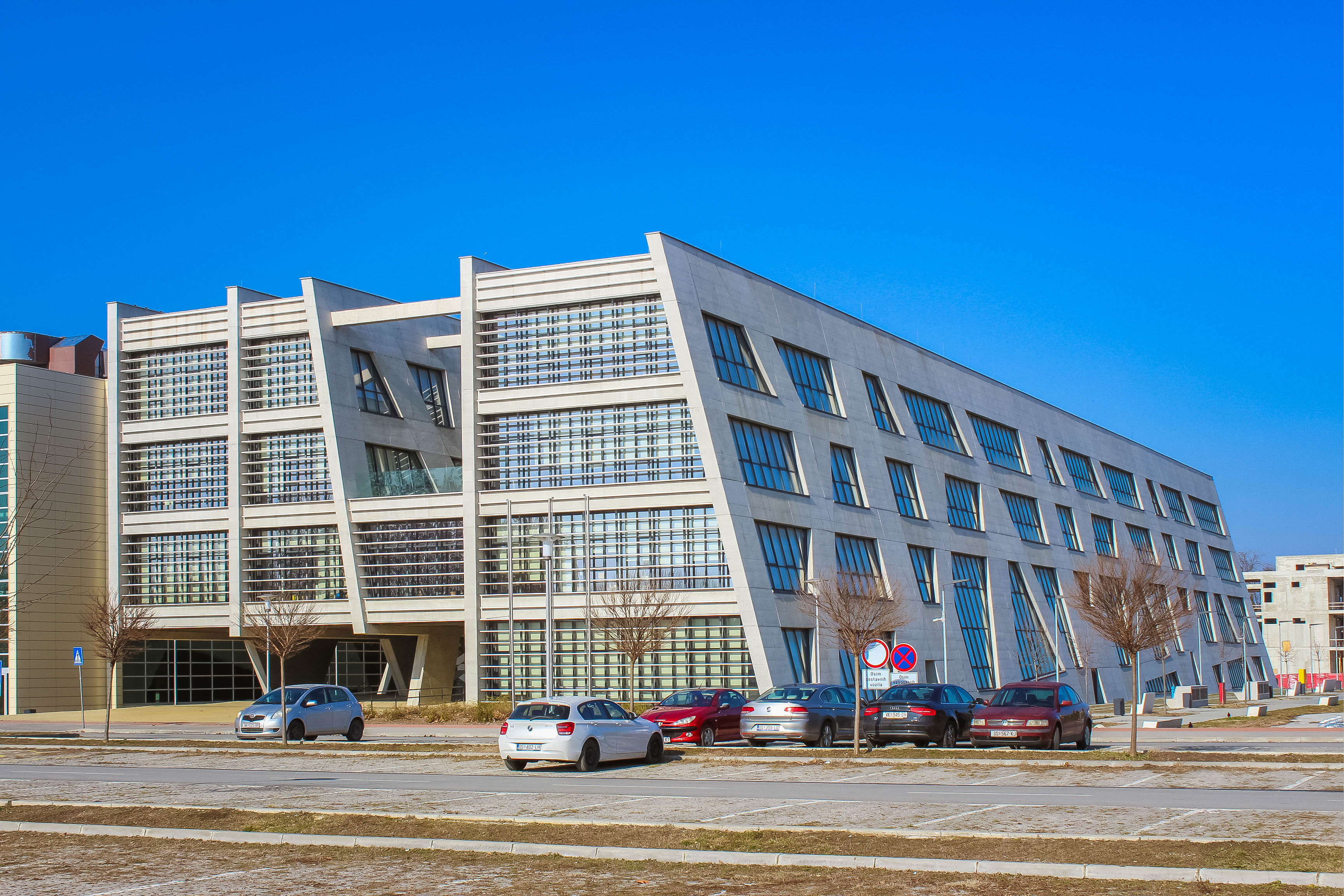 College